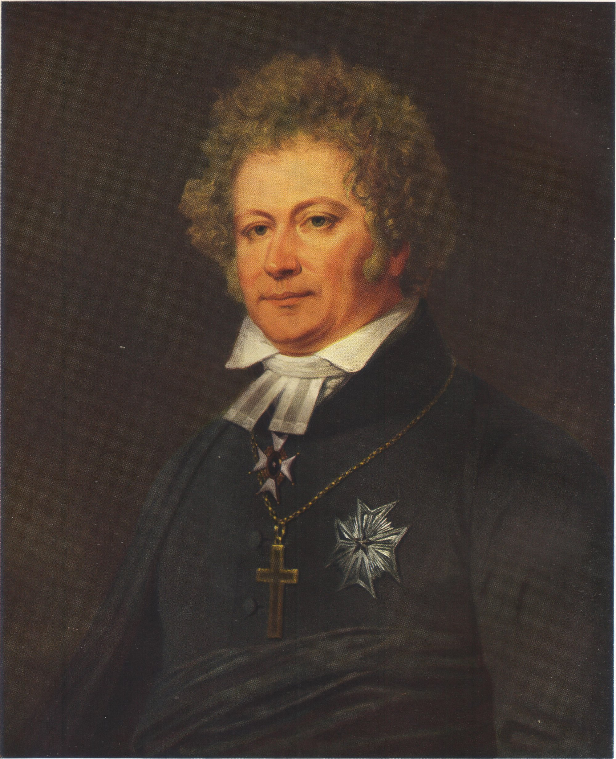 Esaias Tegnér (1782-1846), poet, bishop, member of the Swedish parliament.